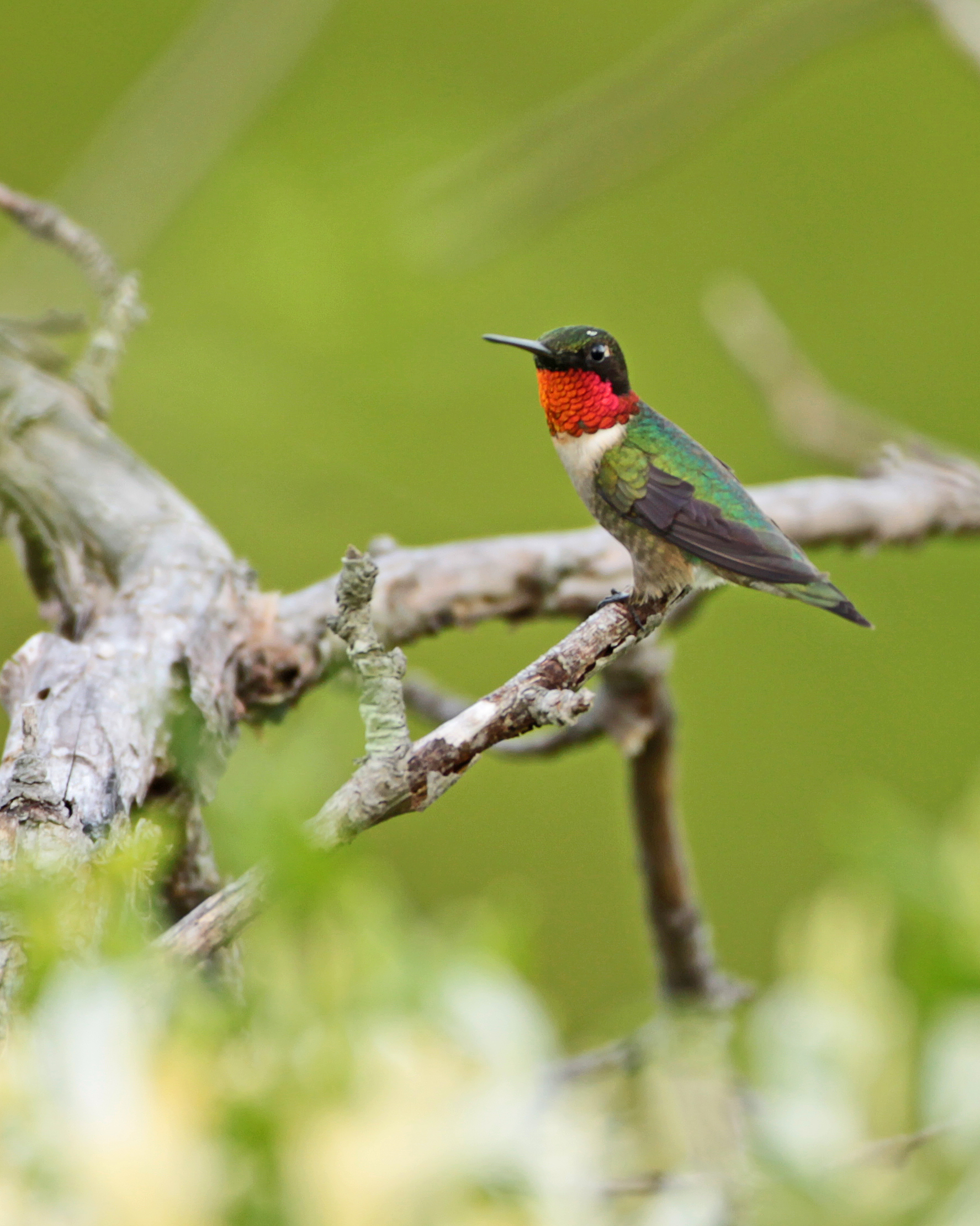 Archilochus colubris; Blackwater National Wildlife Refuge, MD